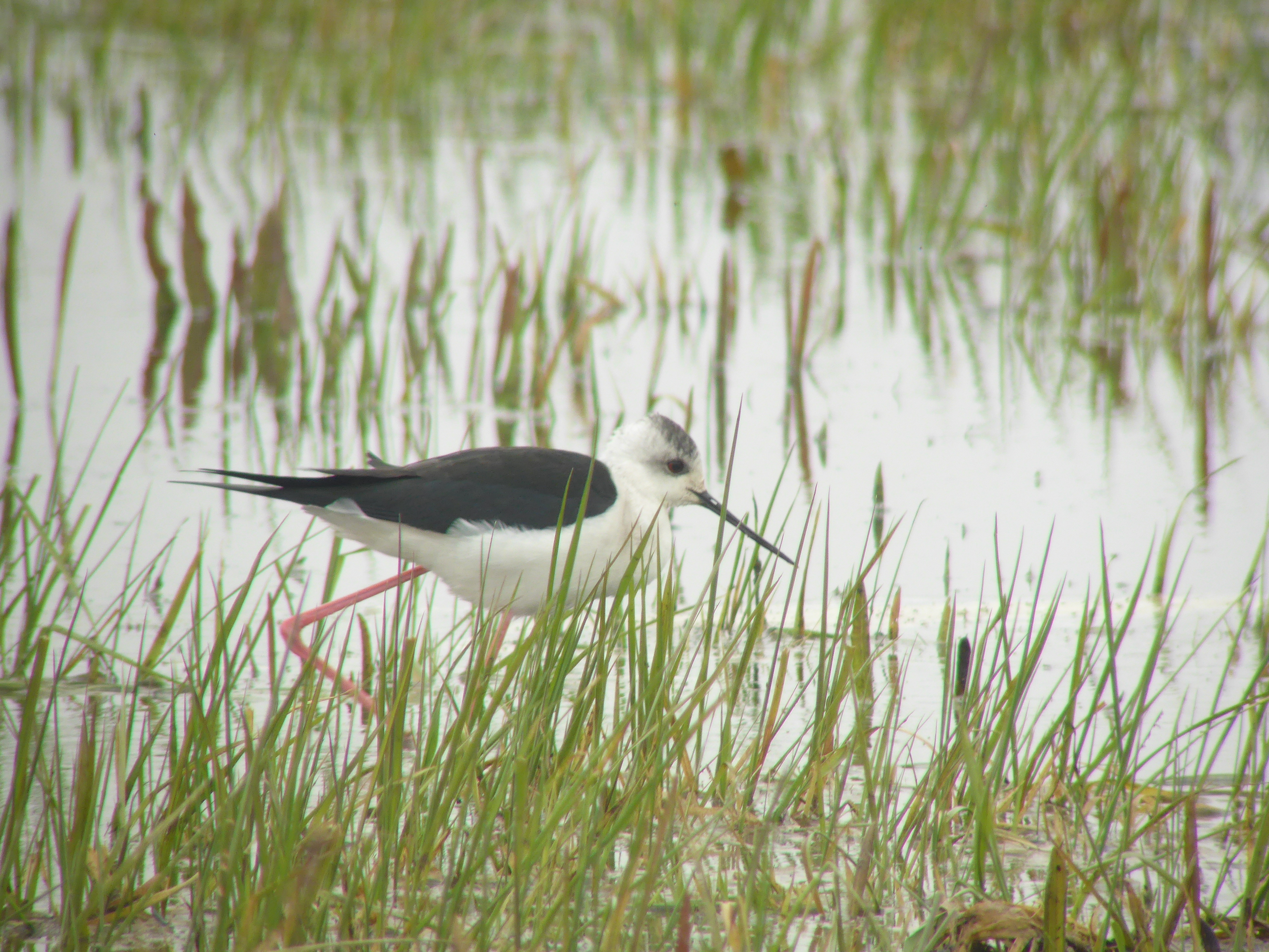 Black Stilt in Marais de Sionnet, Geneva, Switzerland